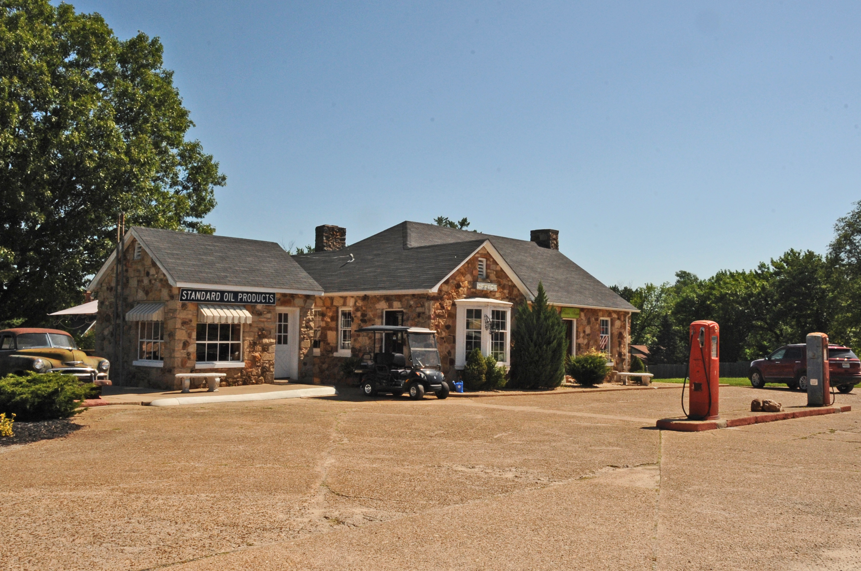 THIS IS A VIEW OF THE STONE OFFICE, FORMER CAFE WHICH IS NOW A STORE AND SOUVENIR SHOP AND THE NO LONGER OPERATING GAS STATION. THE MOTEL HOWEVER STILL OPERATES ON OLD ROUTE 66